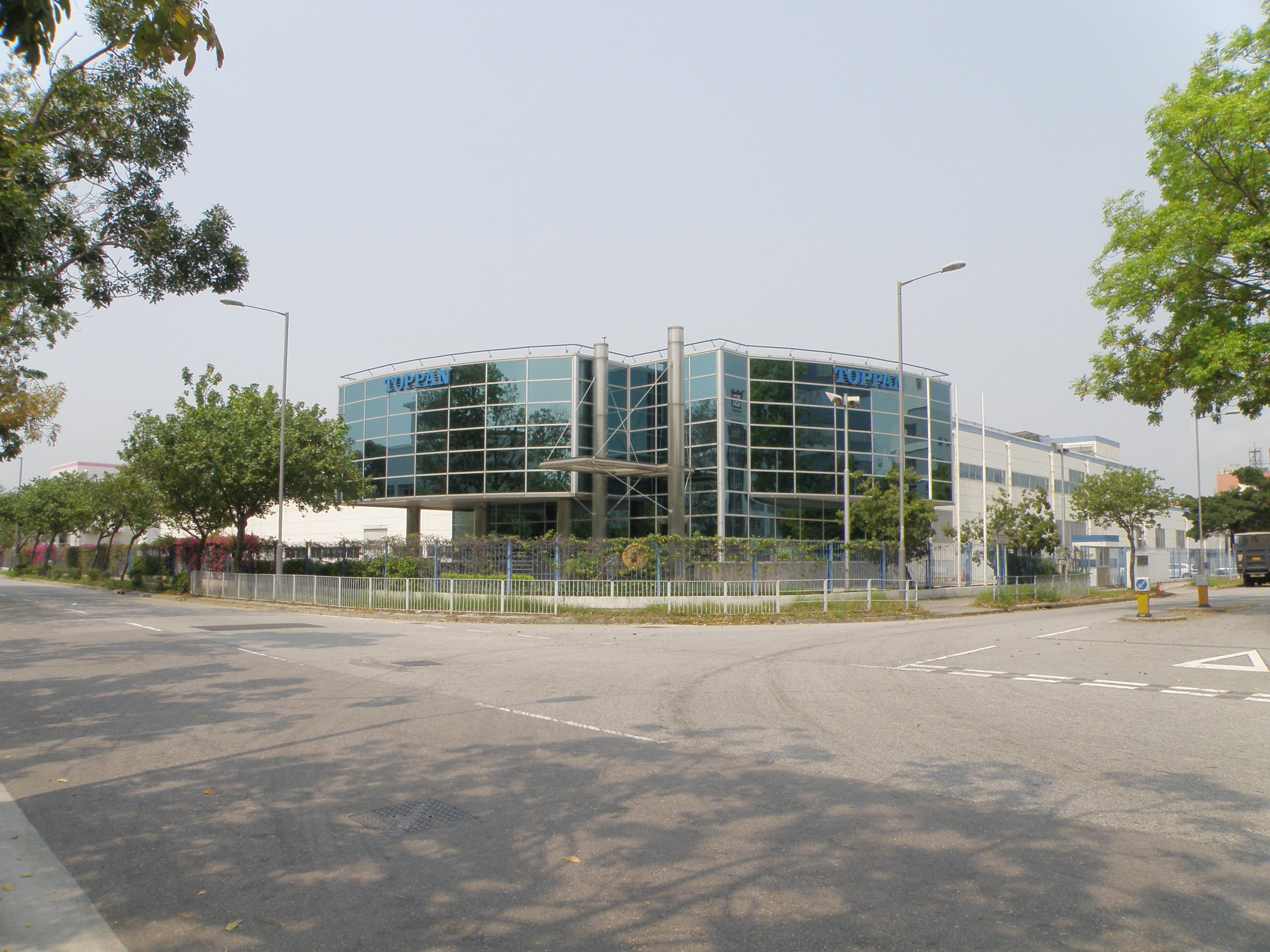 Toppan Printing Company (HK) Limited in Yuen Long, Hong Kong.